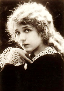 Backlit publicity photo of Mary Pickford